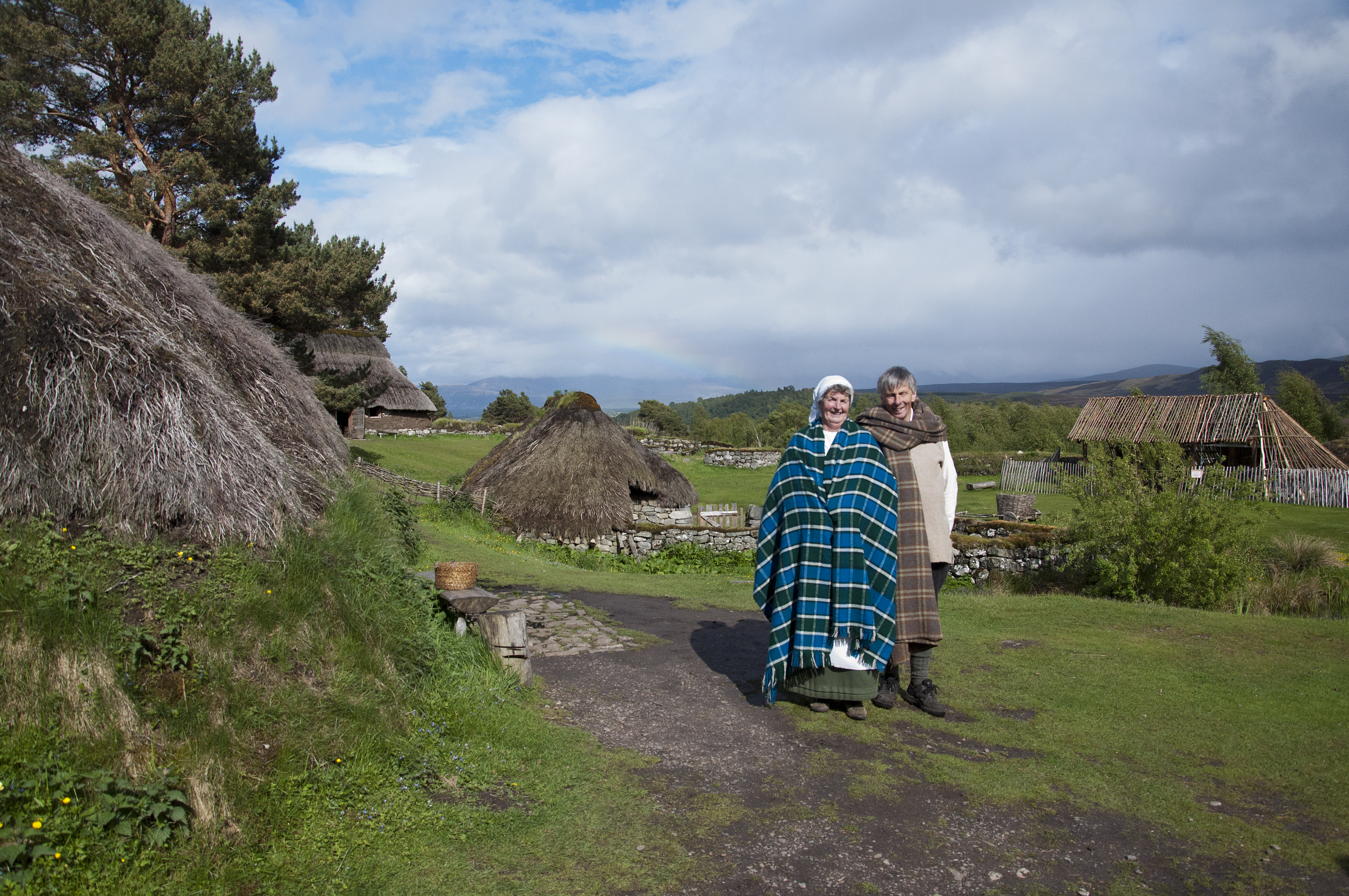 Baile Gean Township at the Highland Folk Museum, Newtonmore, Scotland